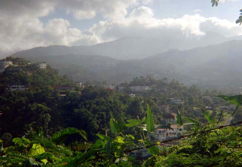 Start of the Blue Mountains just north of Kingston, Jamaica.